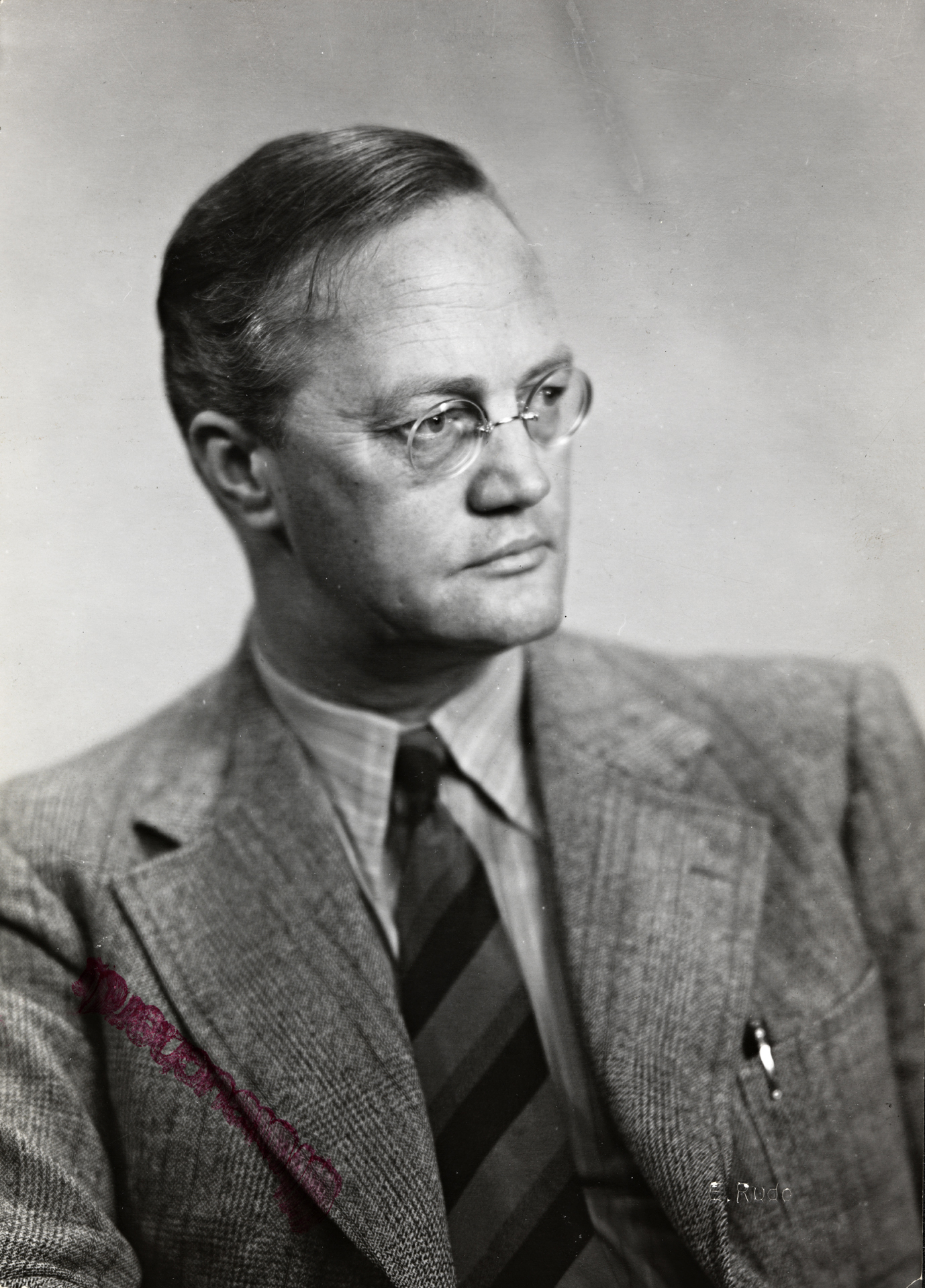 Tittel / Title: Portrett av Sigurd Hoel (1890-1960) Motiv / Motif: Fotografiet stammer fra Gyldendals historiske portrettarkiv. Dato / Date: 1947 Fotograf / Photographer: E. Rude Eier / Owner Institution: Nasjonalbiblioteket / National Library of Norway Lenke / Link: Bildesignatur / Image Number: blds_04867